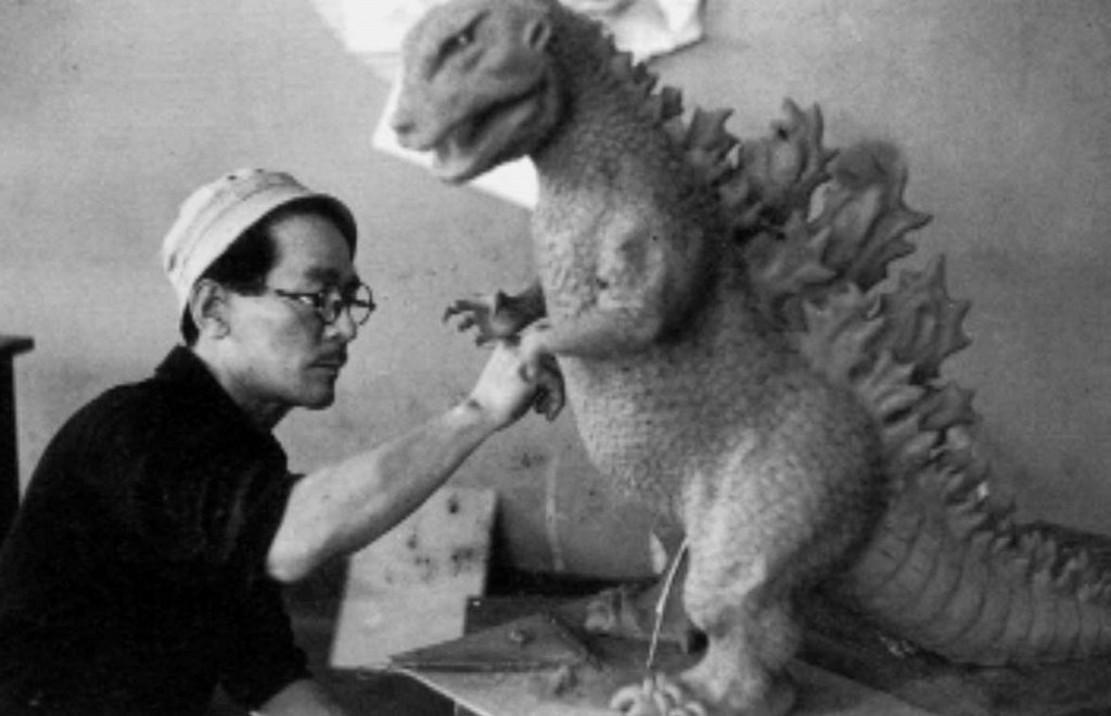 Teizô Toshimitsu sculpting an early Godzilla design.